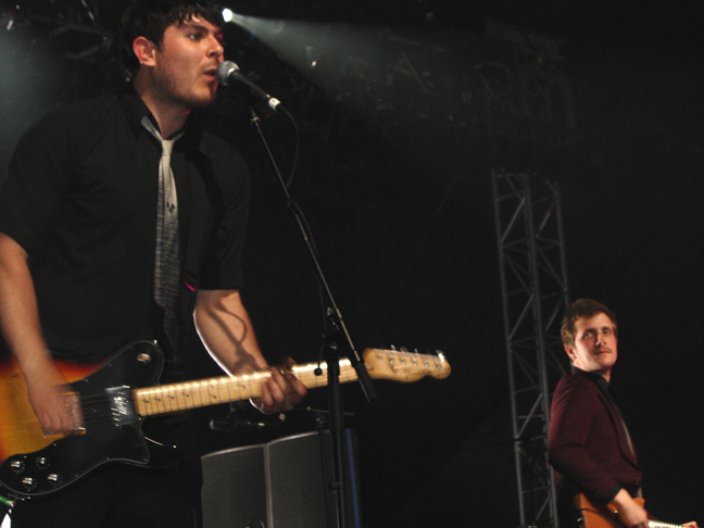 Ross Millard and Barry Hyde.